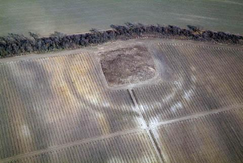 Hungary, Verpelét, castle